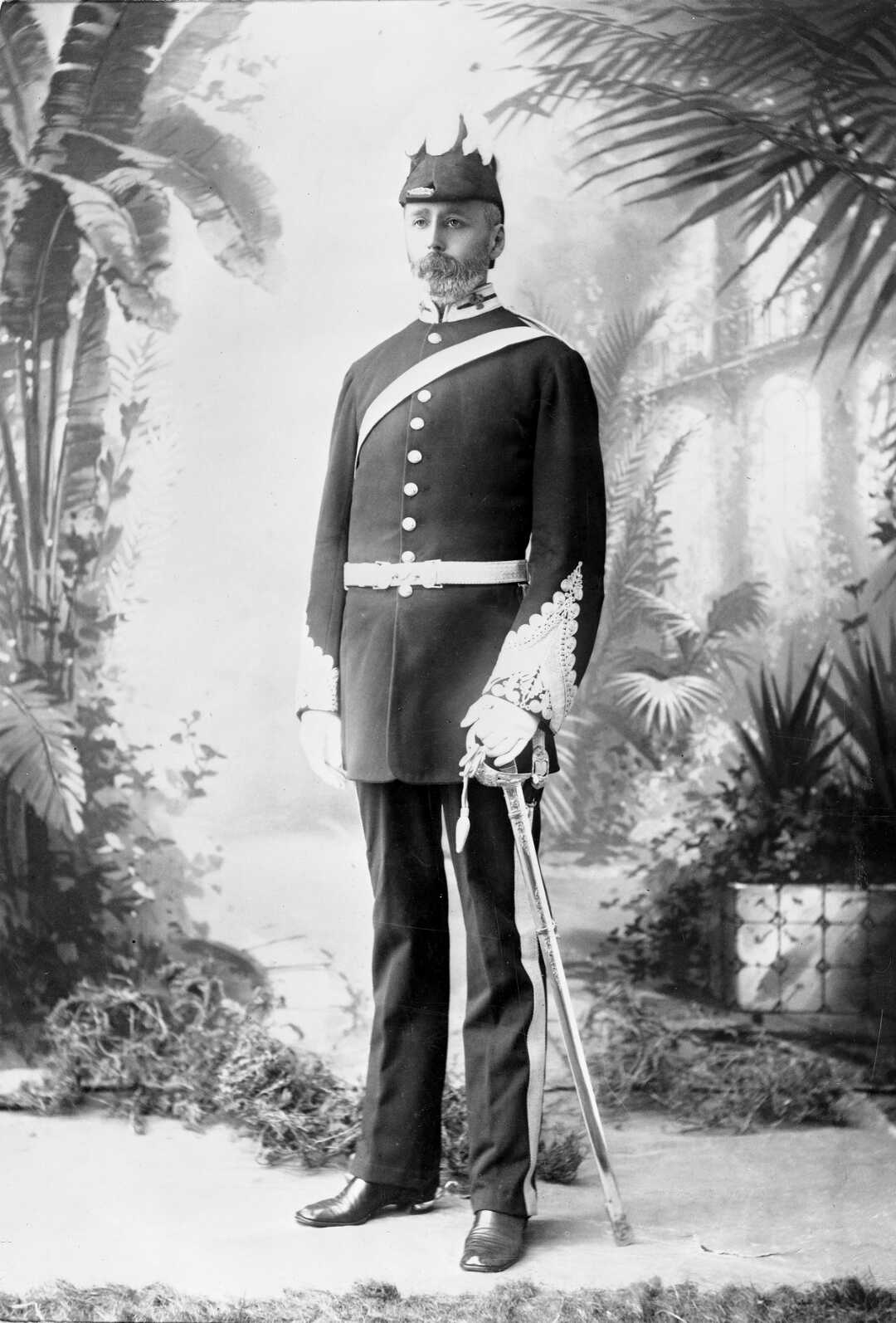 Lieutenant Colonel Edward Pearce. One of the photographs from an illuminated album presented to Edward Pearce upon his retirement from military duties in 1885.